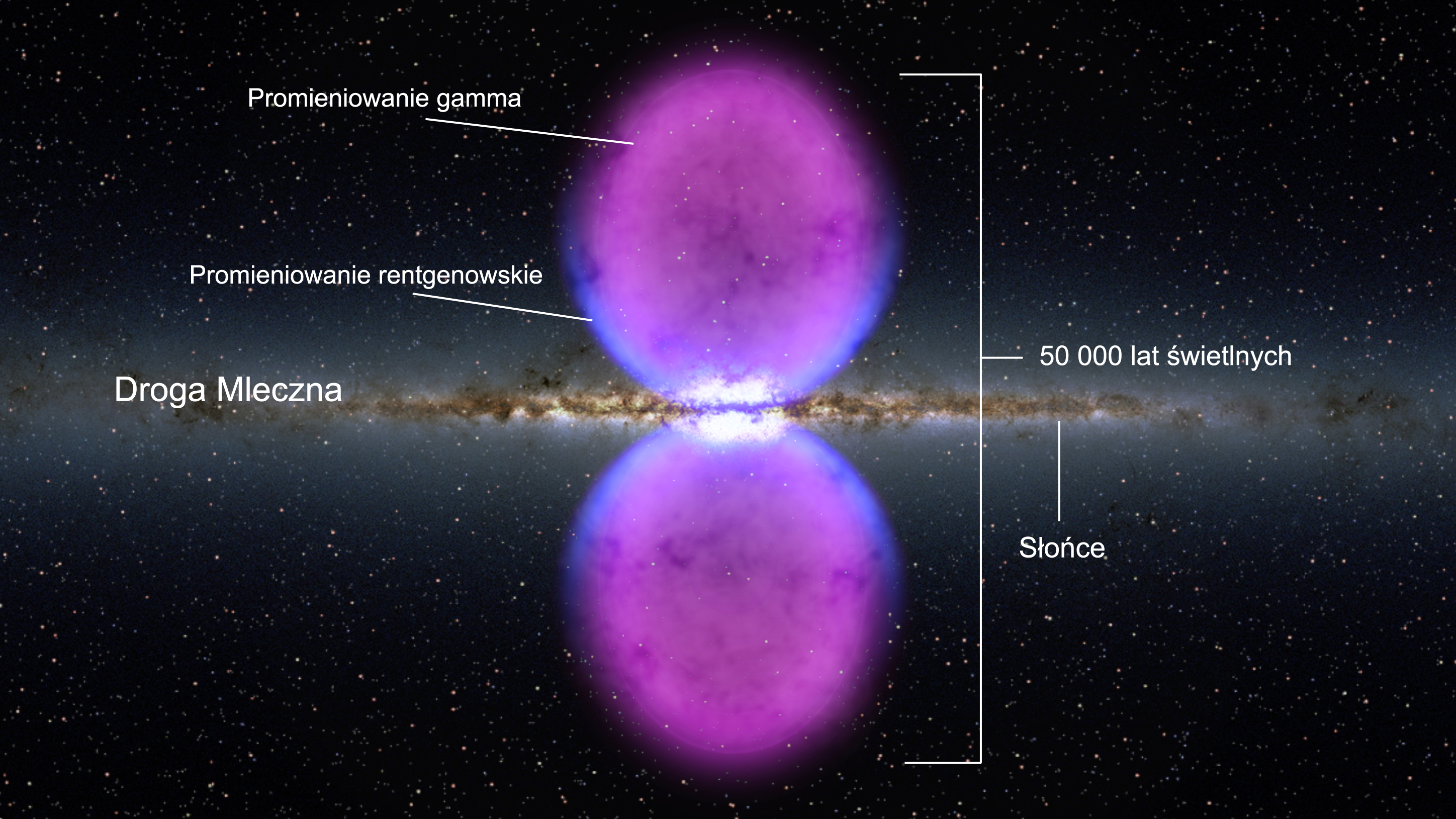 Artistic diagram of the two Fermi bubbles.